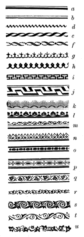 Ornaments for book covers by various fillet tools - See also for background the book by Paul N. Hasluck, 1903 : Fillets, Pallets, and Line Tools